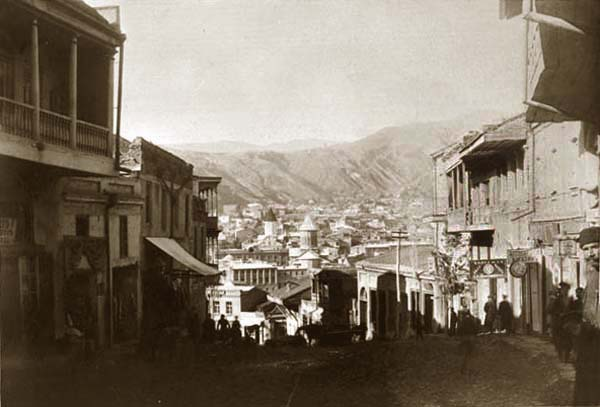 Avlabari. Gvinis Agmarti (Wine Street). 1900